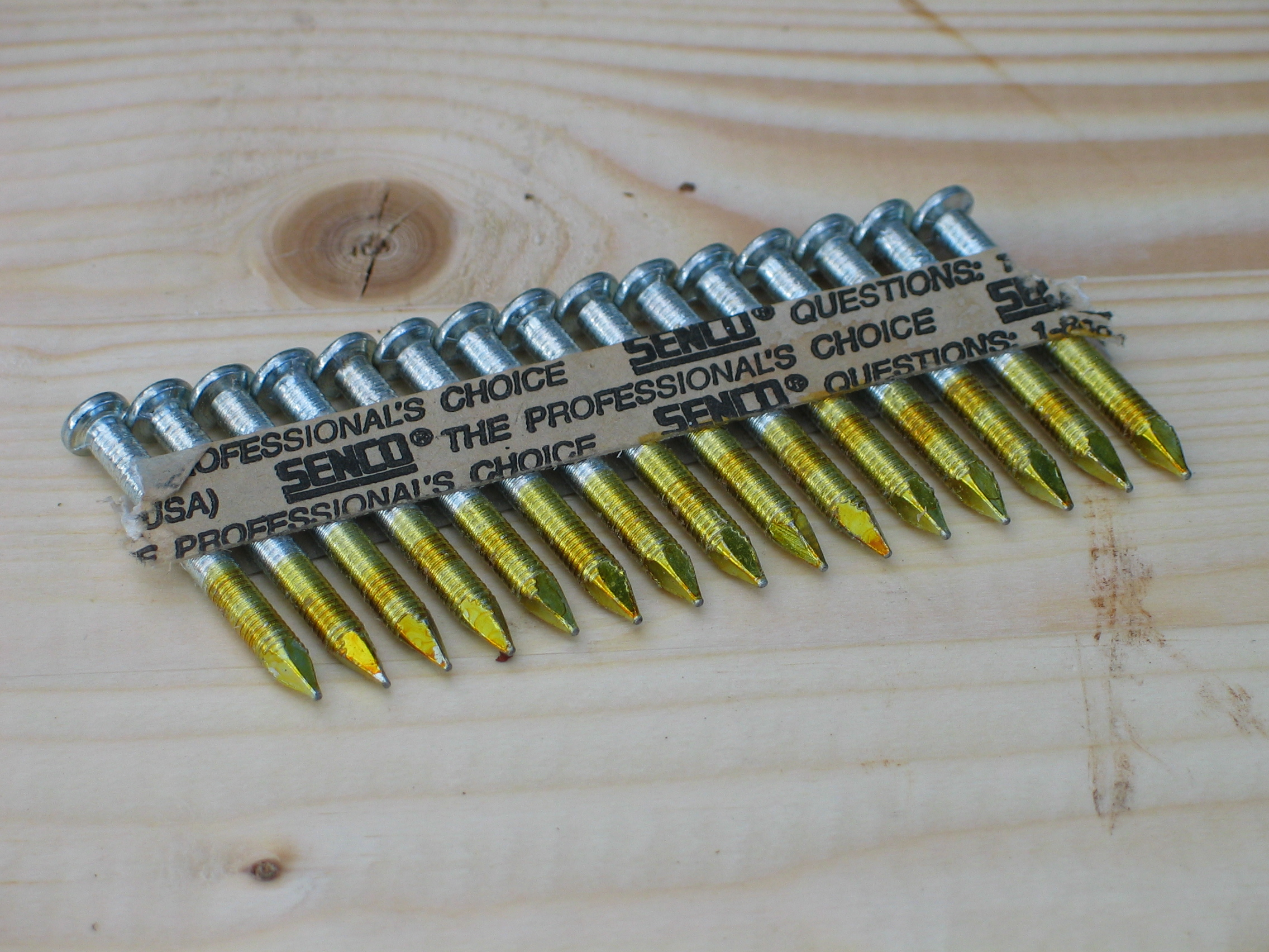 40mm nails for use with a nail gun, photo taken in Sweden